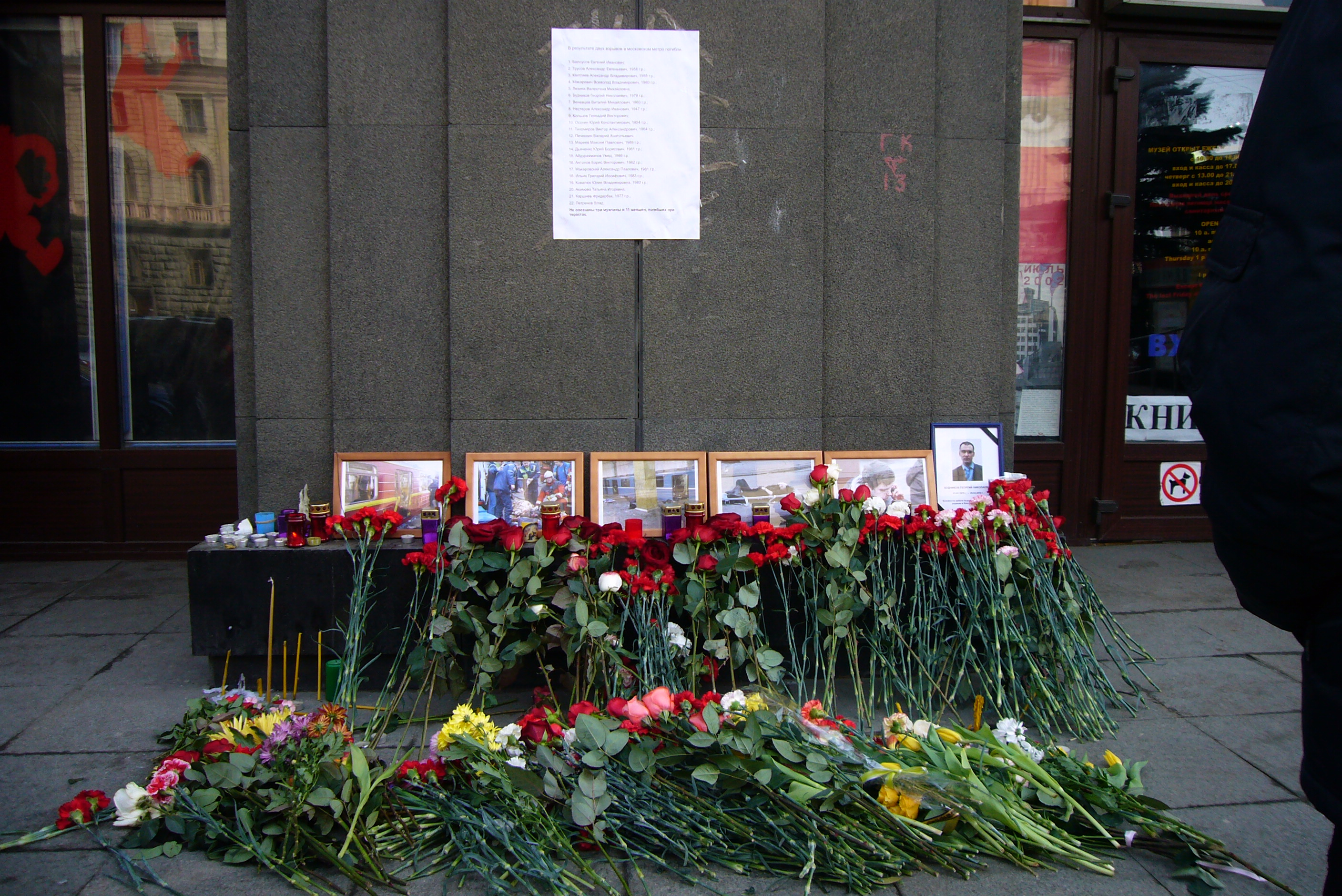 A list of victims of the terrorist attack near an entrance to the Lubyanka metro station (entrance to Vladimir Mayakovsky Museum) in Moscow. Next day, March 30, 2010.